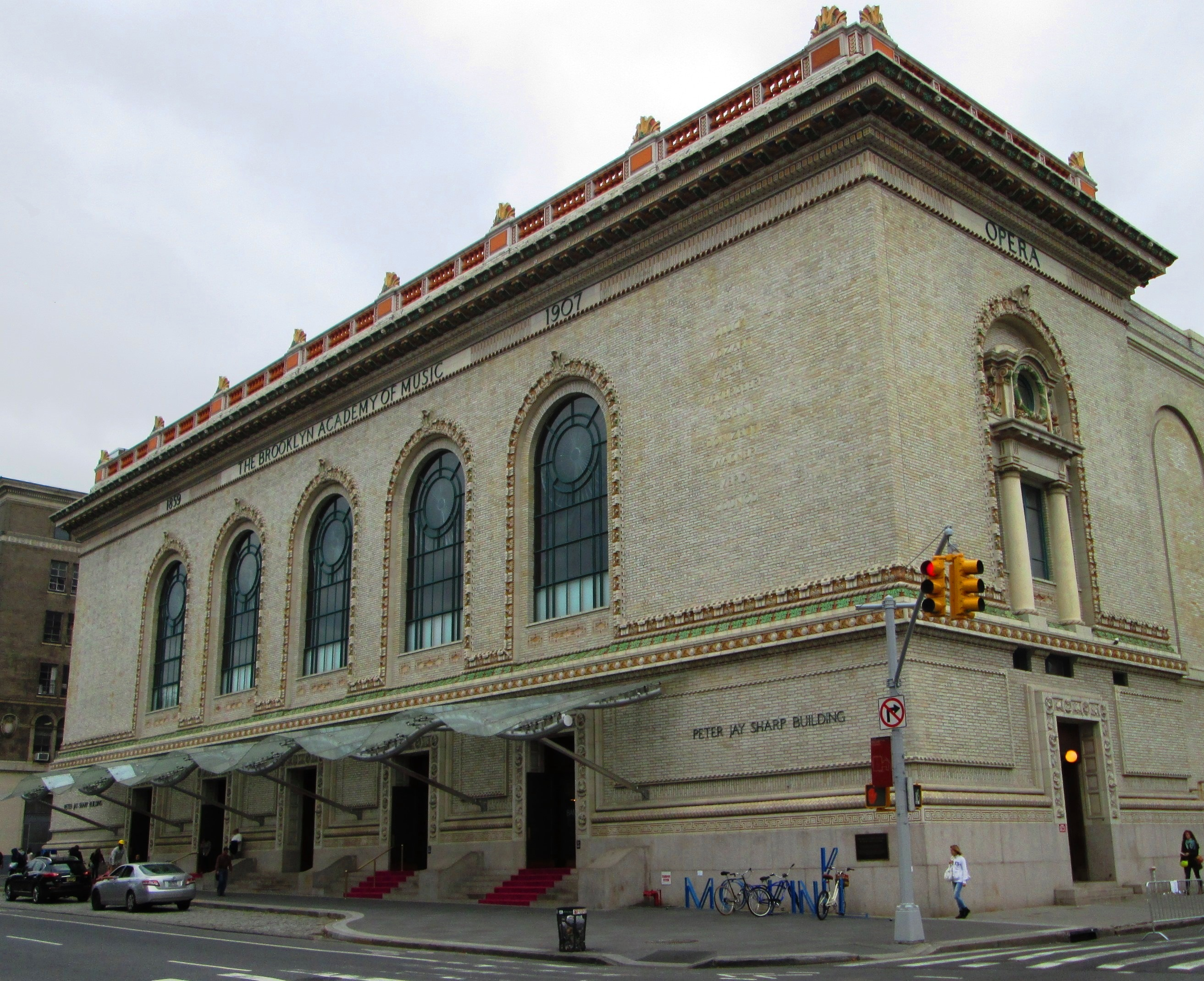 The BAM Peter Jay Sharp Building is the main bulding of the Brooklyn Academy of Music. It wsa built in 1908 and was designed by Henery Beaumont Herts of Herts & Tallant in the Classical Revival style, with new canopies added in 2008 designed by Hugh Hardy/H3 Hardy Collaboration. (Source: AIA Guide to NYC (5th ed.)) The building contains the Howard Gilman Opera House (2,109 seats), the Rose Cinemas (formerly the Carey Playhouse), the LePercq Space (a multi-functional facility) and the Hillman Attic Studio (a small rehearsal and performance space), as well as offices and gallery space.